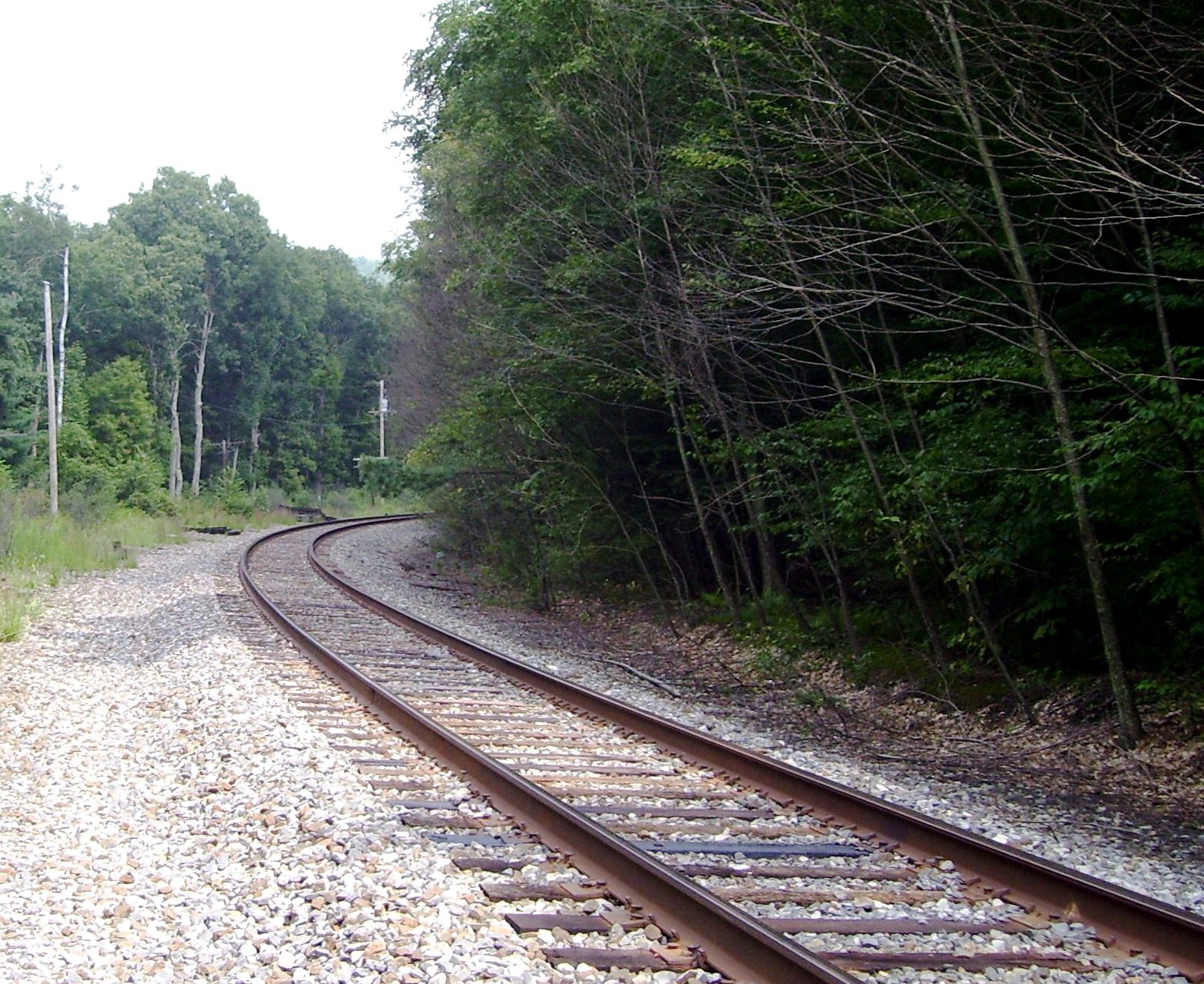 Former Erie, now Norfolk Southern, tracks which run along the Delaware River on the ridge above Pond Eddy, Pennsylvania, near the Pond Eddy Bridge